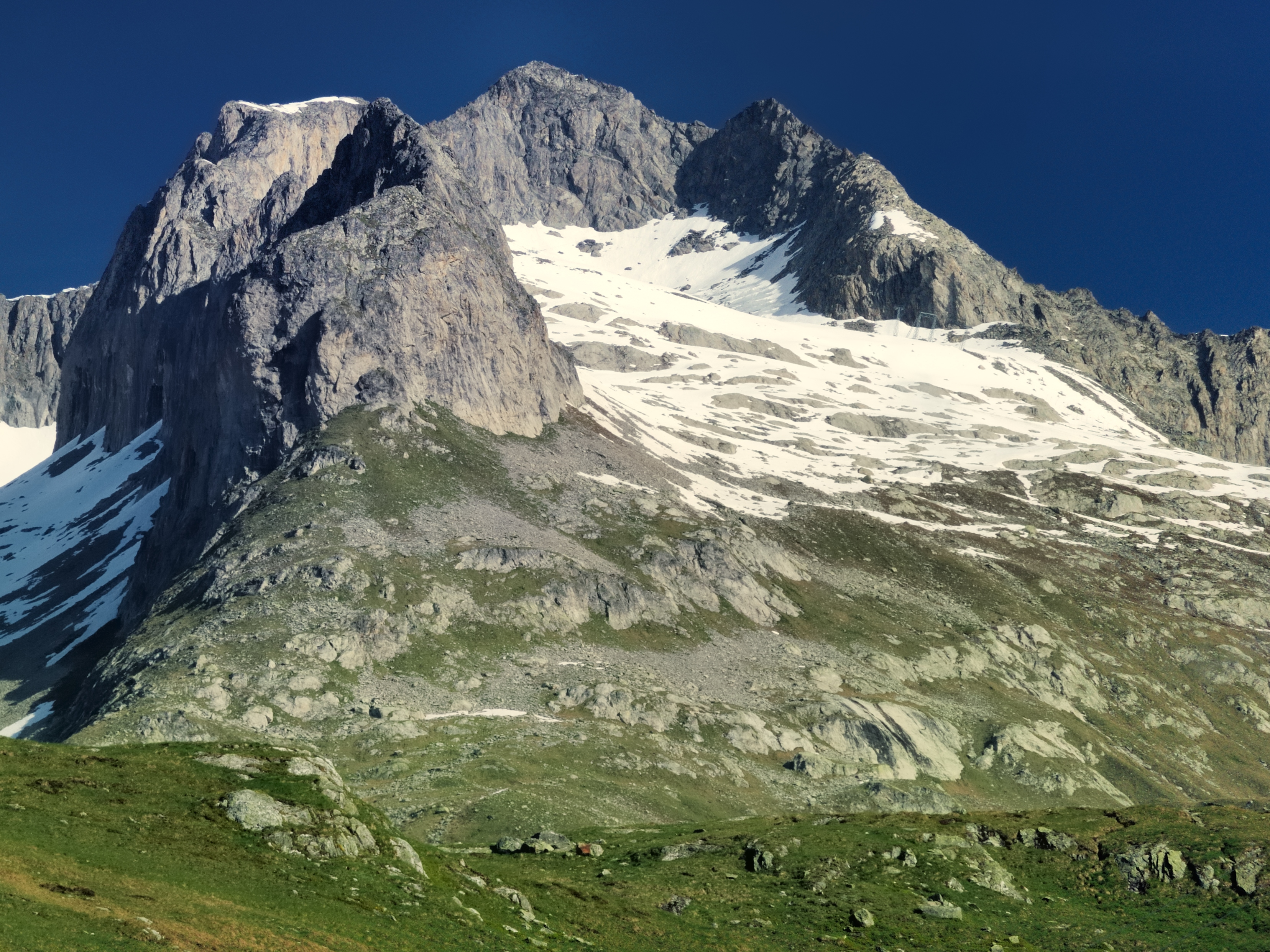 Hohstock, Naters (Belalp-Bruchegg)